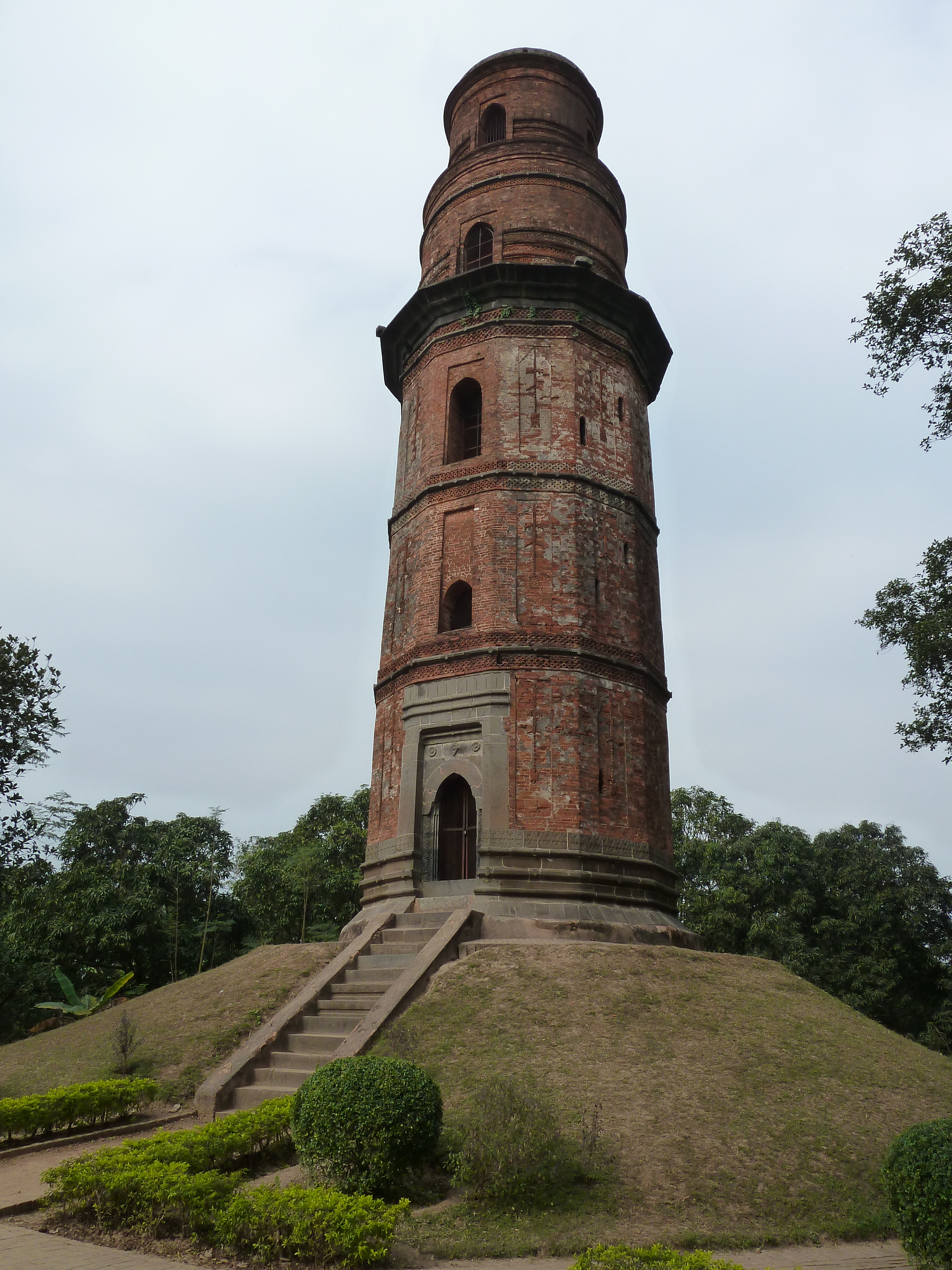 This tower 25.60 m Hight with spiral staircase having 73 steps was probably constructed by Saifuddin Firoz an abyssinian who became the sultan by killing Barbak Shah.